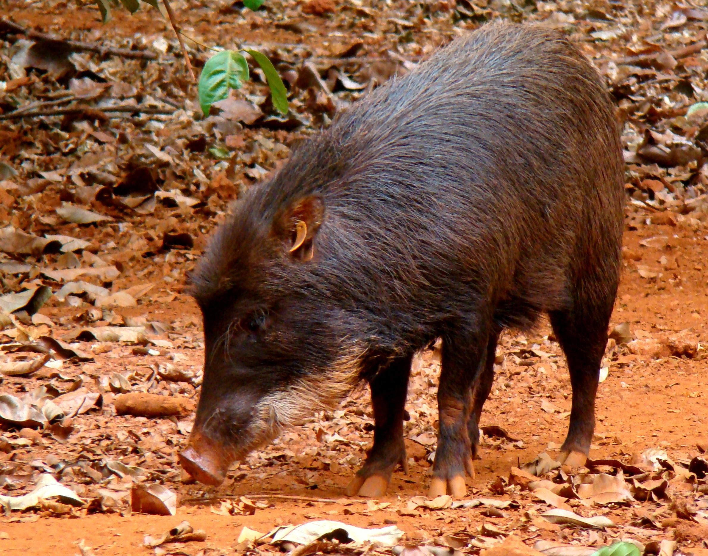 White-lipped Peccary (Tayassu pecari) in Brazil. Its left ear is tagged.